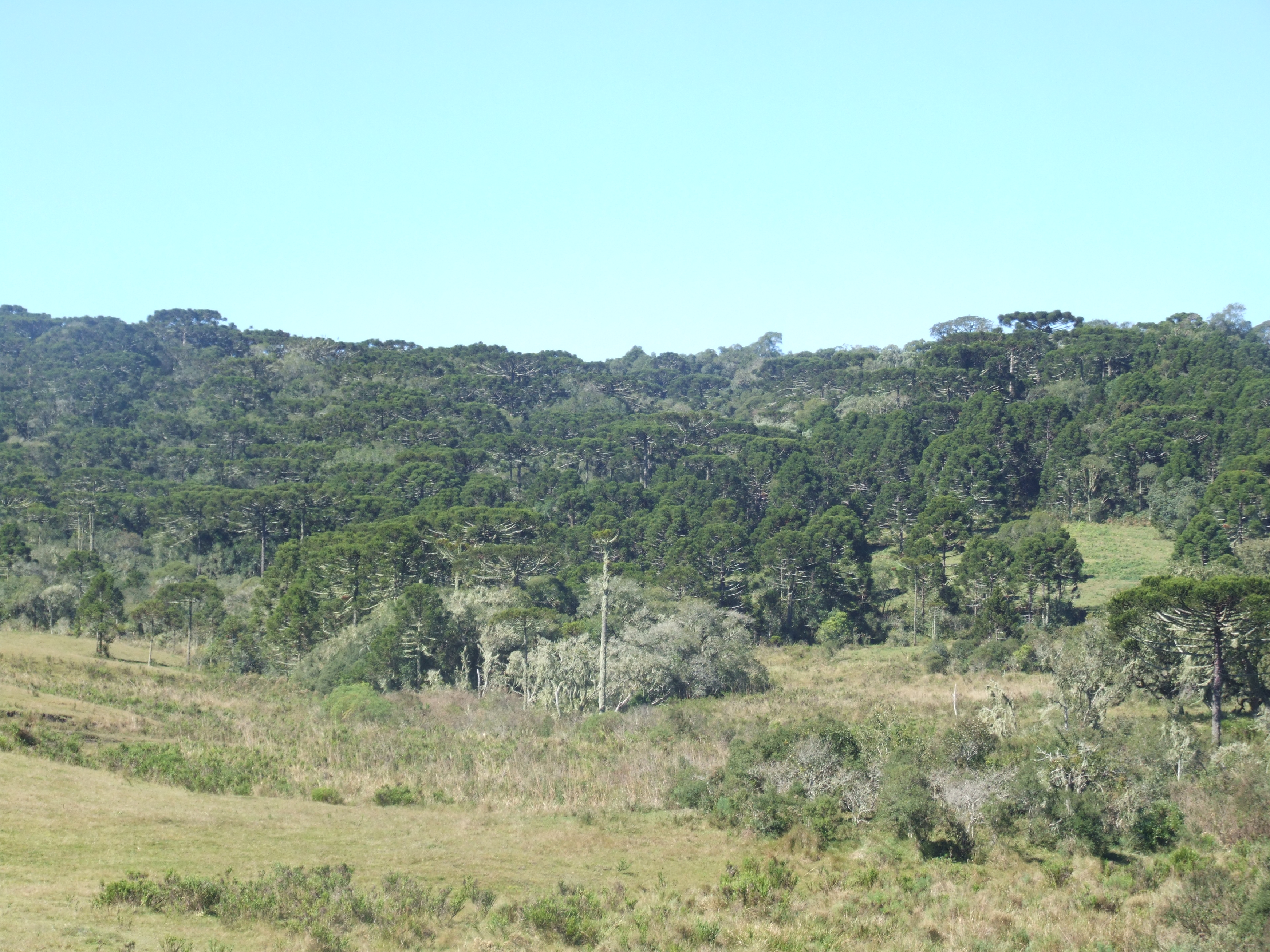 Remnants of Araucaria angustifolia, Campos Novos, Santa Catarina, Brazil